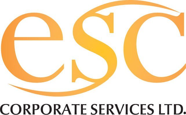 Corporate logo of ESC Corporate Services, a government agency licensed under contract with the Ministry of Government Services of Ontario Logo of Licenced Government Service Provider ESC Corporate Servics